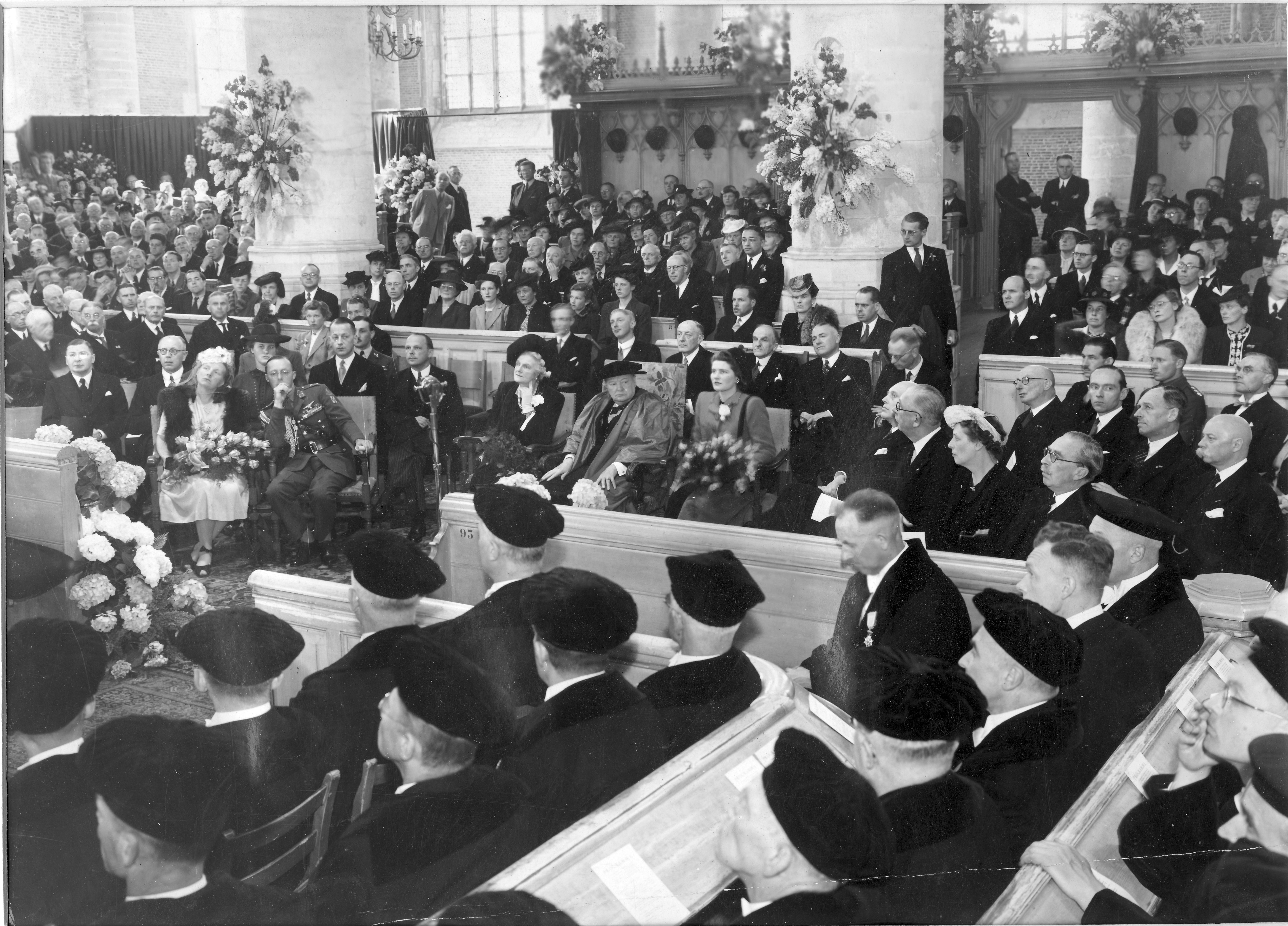 Sir Winston Churchill, receiving an honorary doctorate, in the Pieterskerk at Leiden University